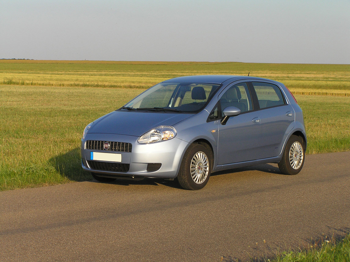 Fiat grande Punto